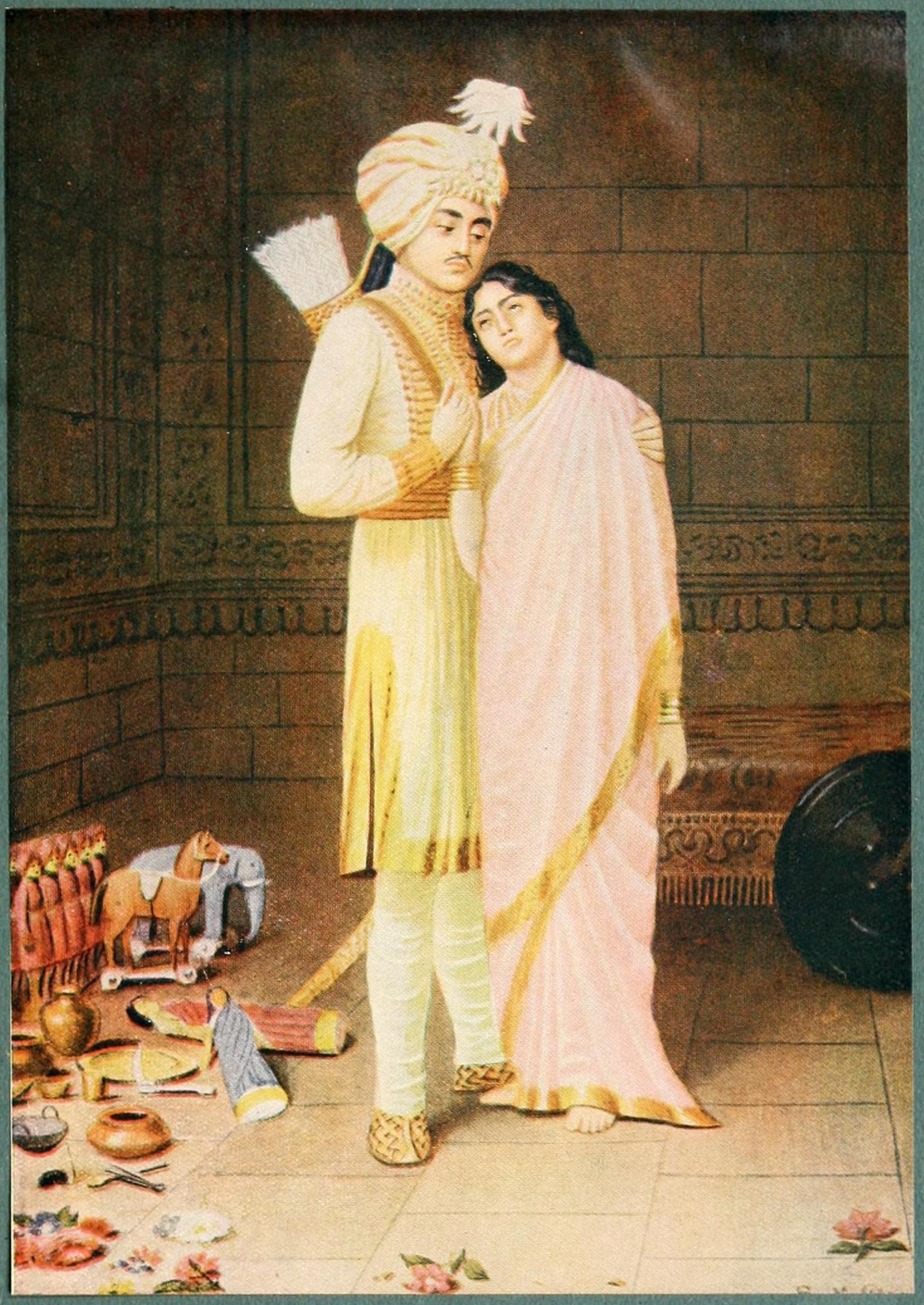 Nine ideal Indian women (1919) Author: Sunity Devee, Maharanee Publisher: Calcutta : Thacker, Spink & Co. Possible copyright status: NOT_IN_COPYRIGHT Language: English Call number: SRLF_UCLA:LAGE-3264077 Digitizing sponsor: Internet Archive Book contributor: University of California Libraries Collection: cdl; americana Scanfactors: 2 Full catalog record: MARCXML [Open Library icon]This book has an editable web page on Open Library.